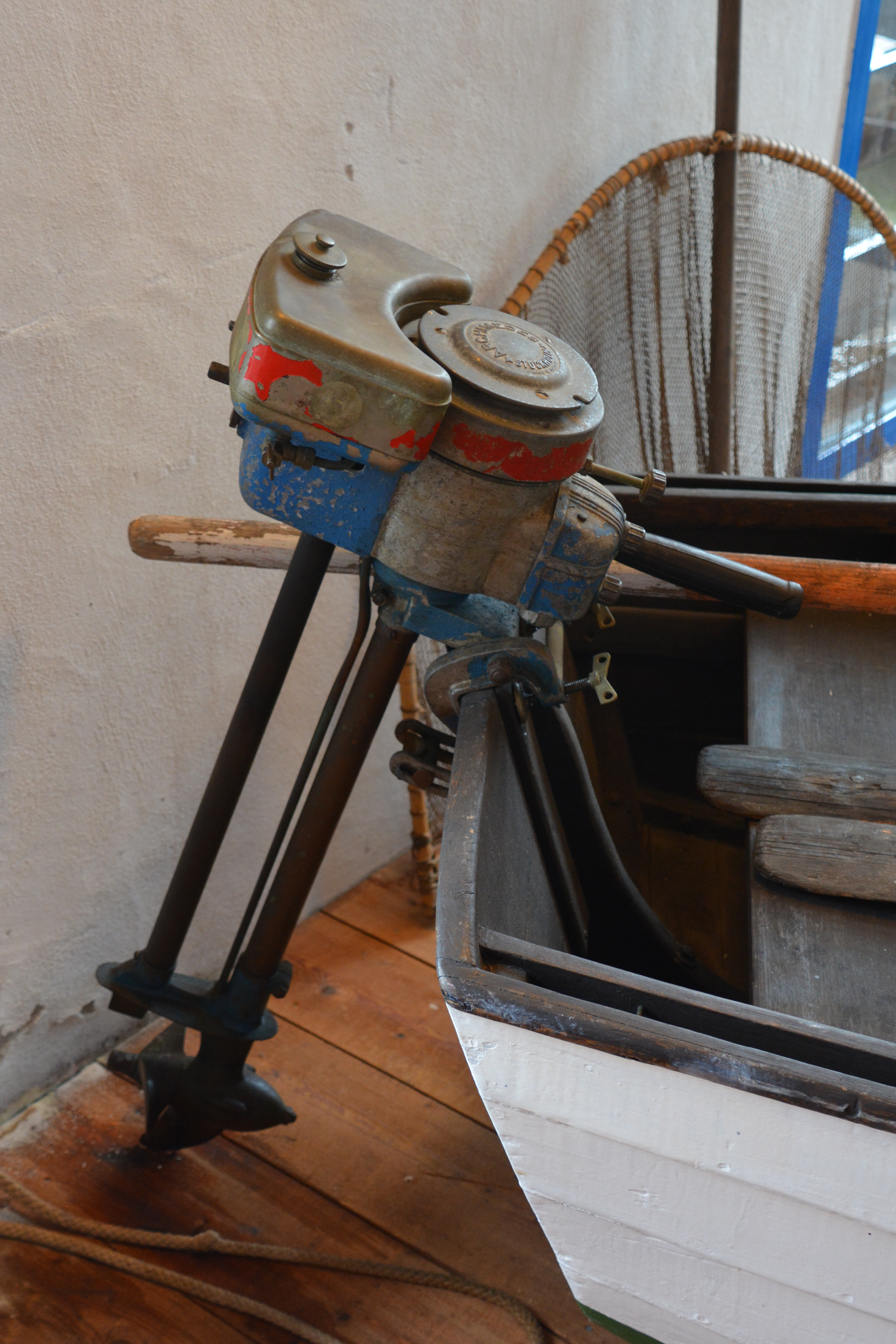 Archimedes motor